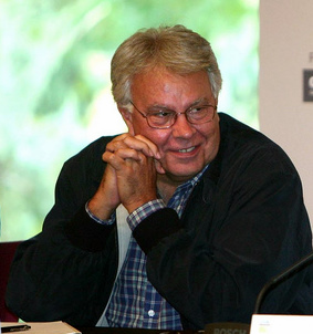 Felipe González, Spanish politician and former Prime Minister of Spain.